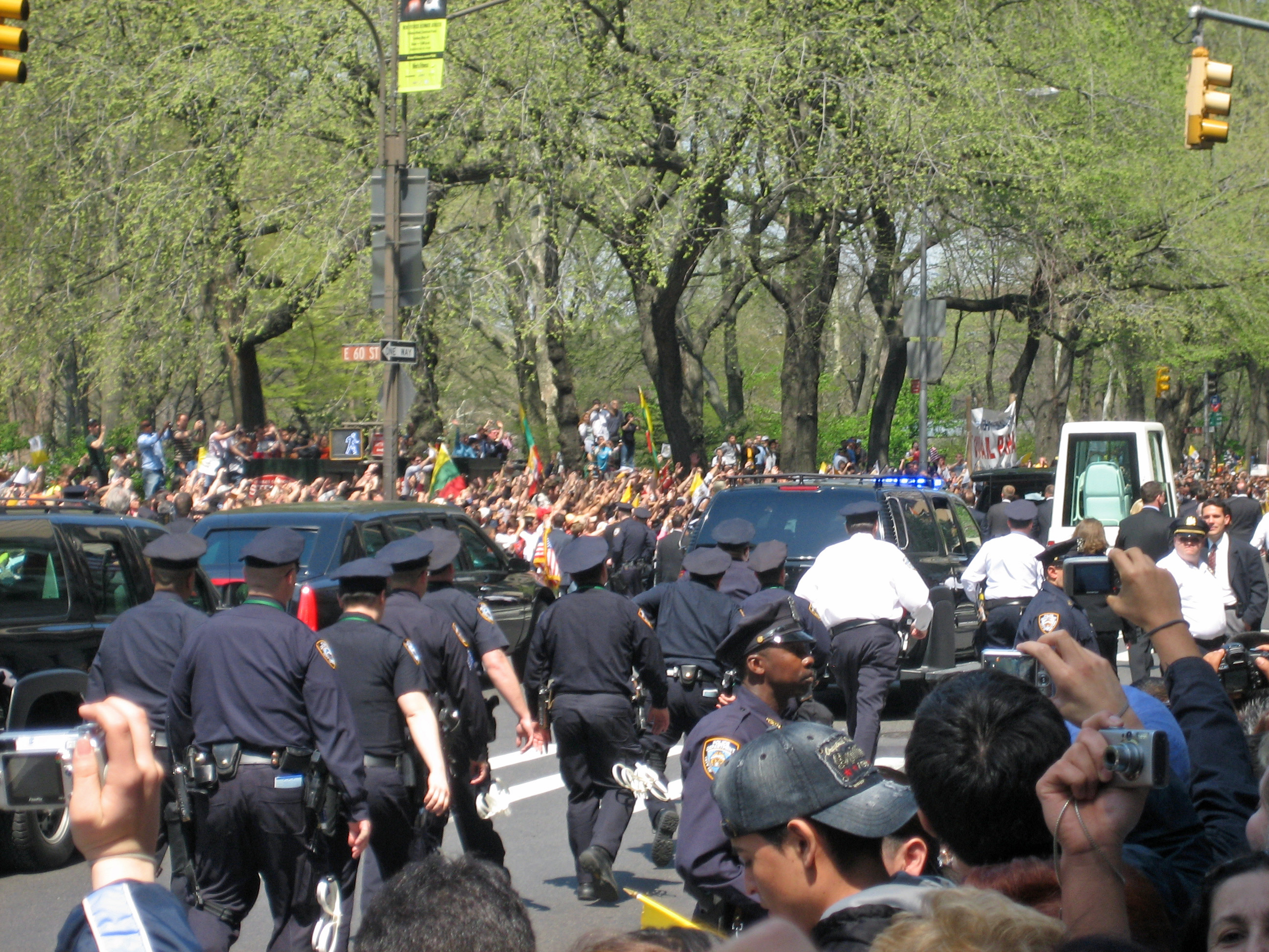 Benedict XVI in Popemobile cross East 60 St. in Central Park. Note the heavy security entourage.